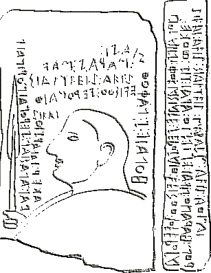 Etruscan inscriptions discovered in crypt on the Lemnos island